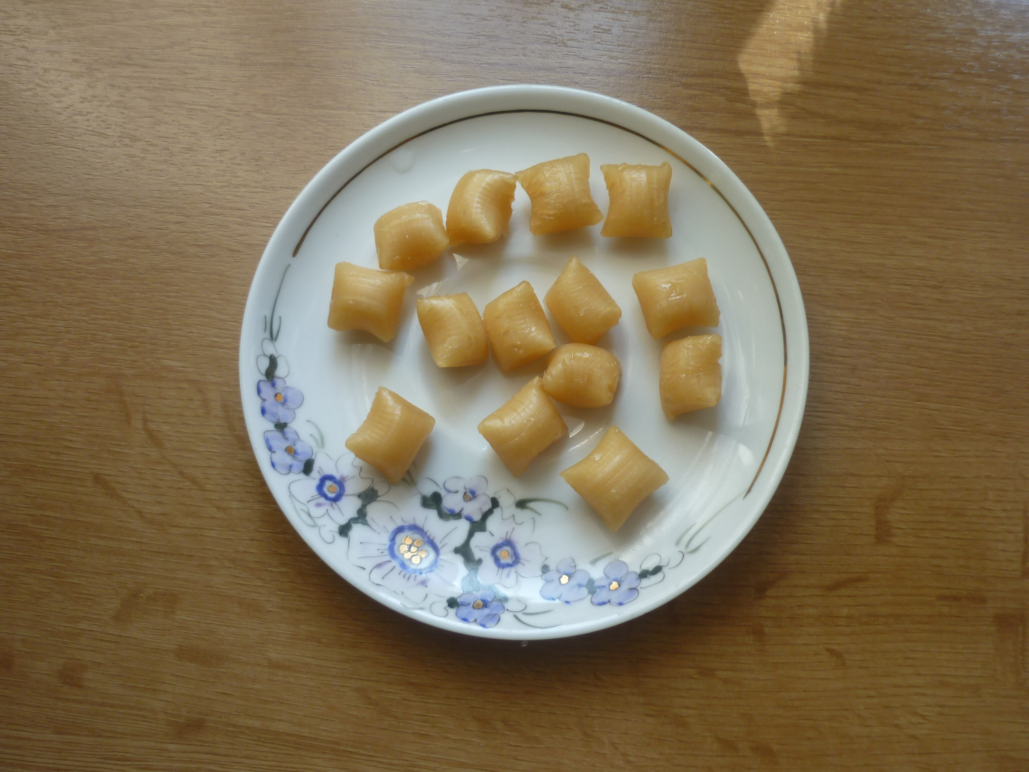 Dutch butter candies on a plate.